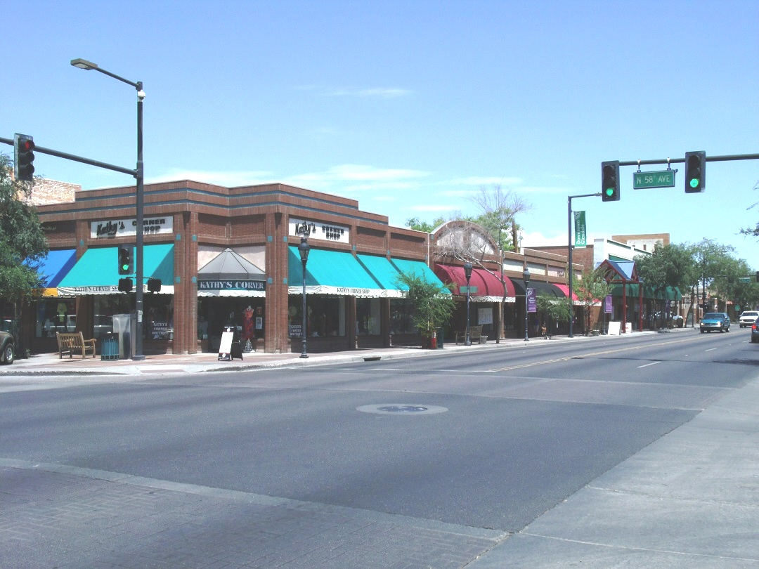 Downtown Glendale, Arizona as viewed from the intersections of Glendale Ave. and 58th Ave.